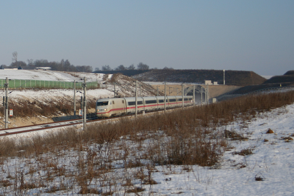 South portal of the Stammham-Tunnel, Nuernberg-Munich high-speed railway line